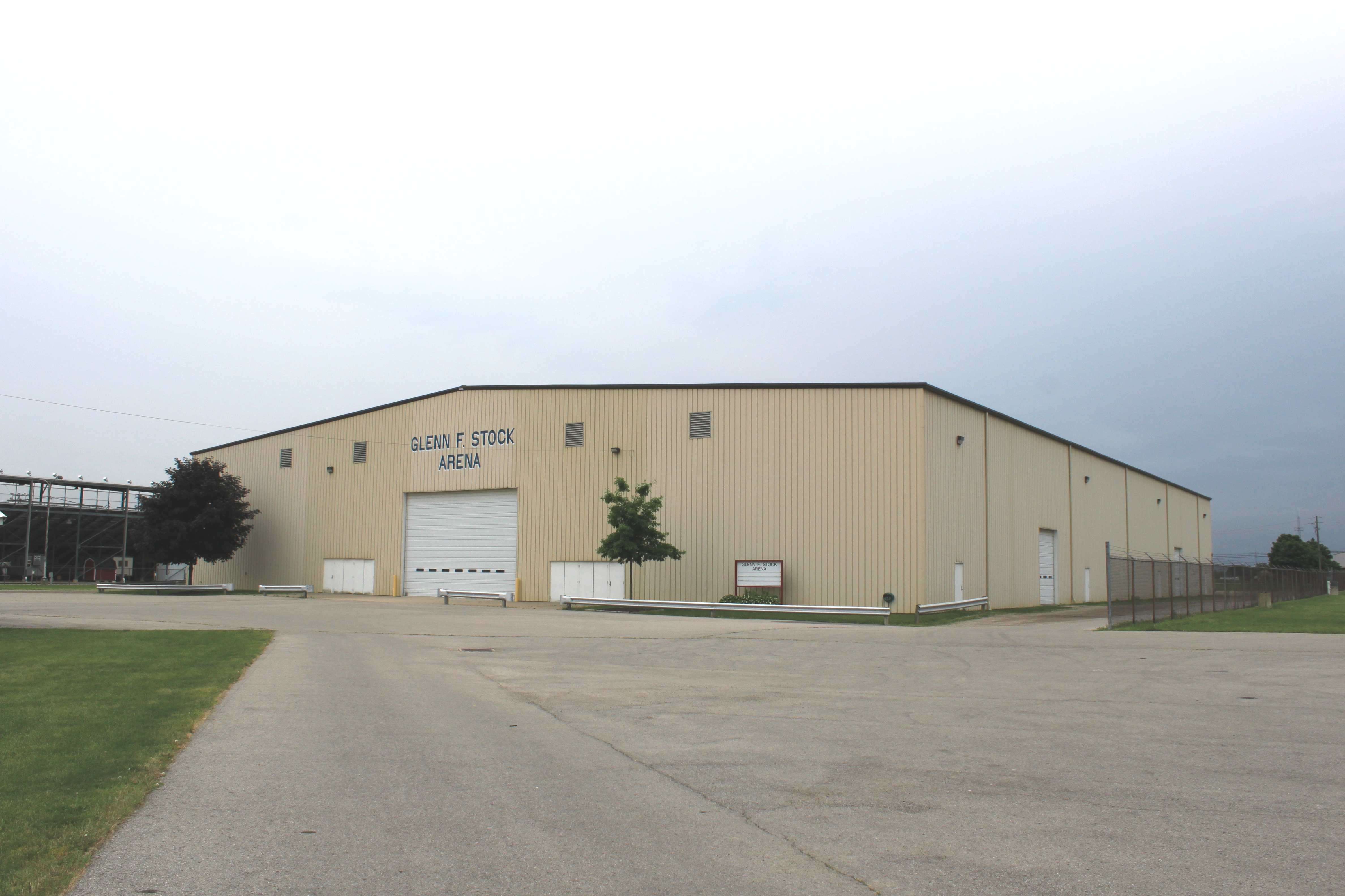 Glenn F. Stock Arena, 3775 South Custer Road, Monroe, Michigan